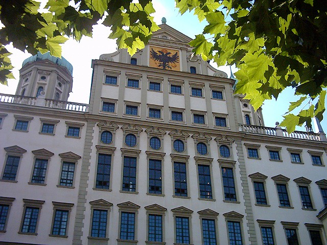 Augsburg (Bavaria): Renaissance Town Hall (rear view of Elias Holl Square, named after the builder)